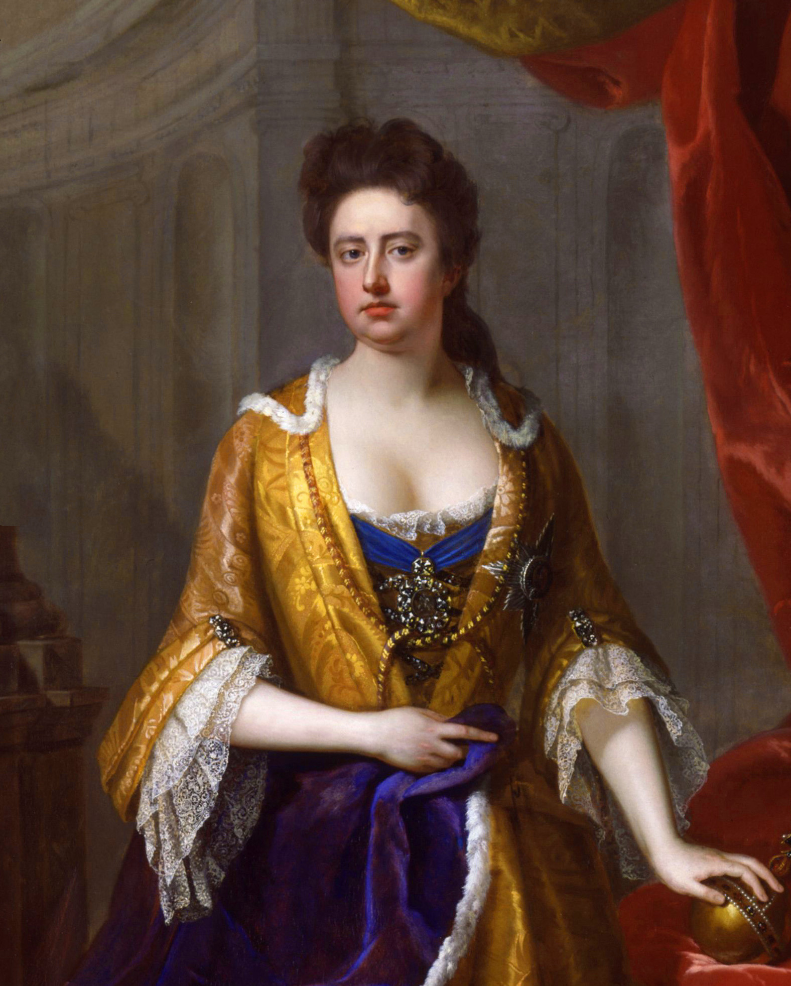 Anne of Great Britain (1665-1714, r. 1702-1714)